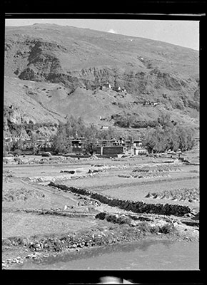 Settlement and monastery of Lhalung in Lhodrag.